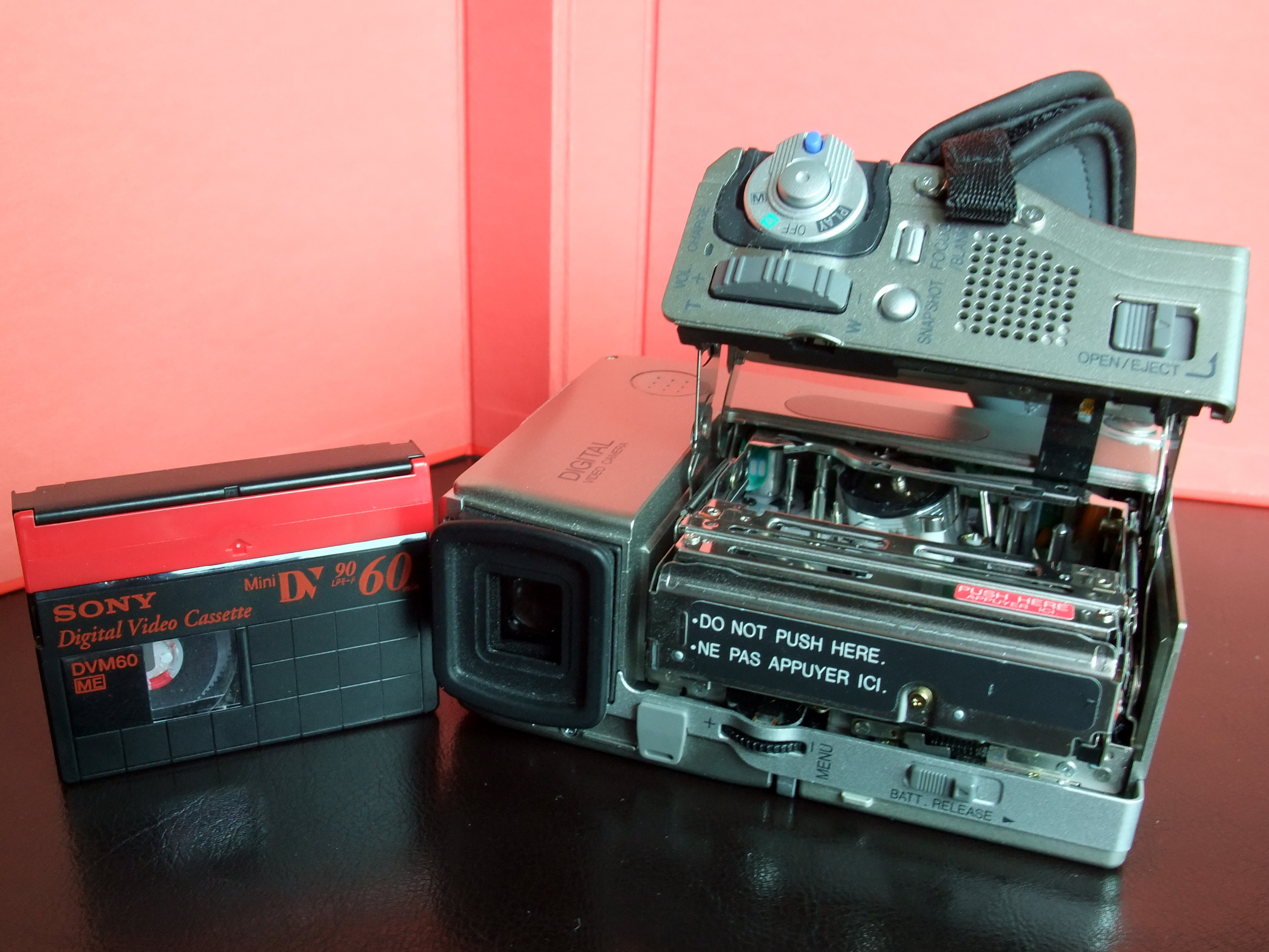 JVC GR-DVM55U digital video camera. MiniDV camcorder with 10x optical, 200x digital zoom, digital image stabilization, 2.5-inch color LCD monitor, and color EVF.